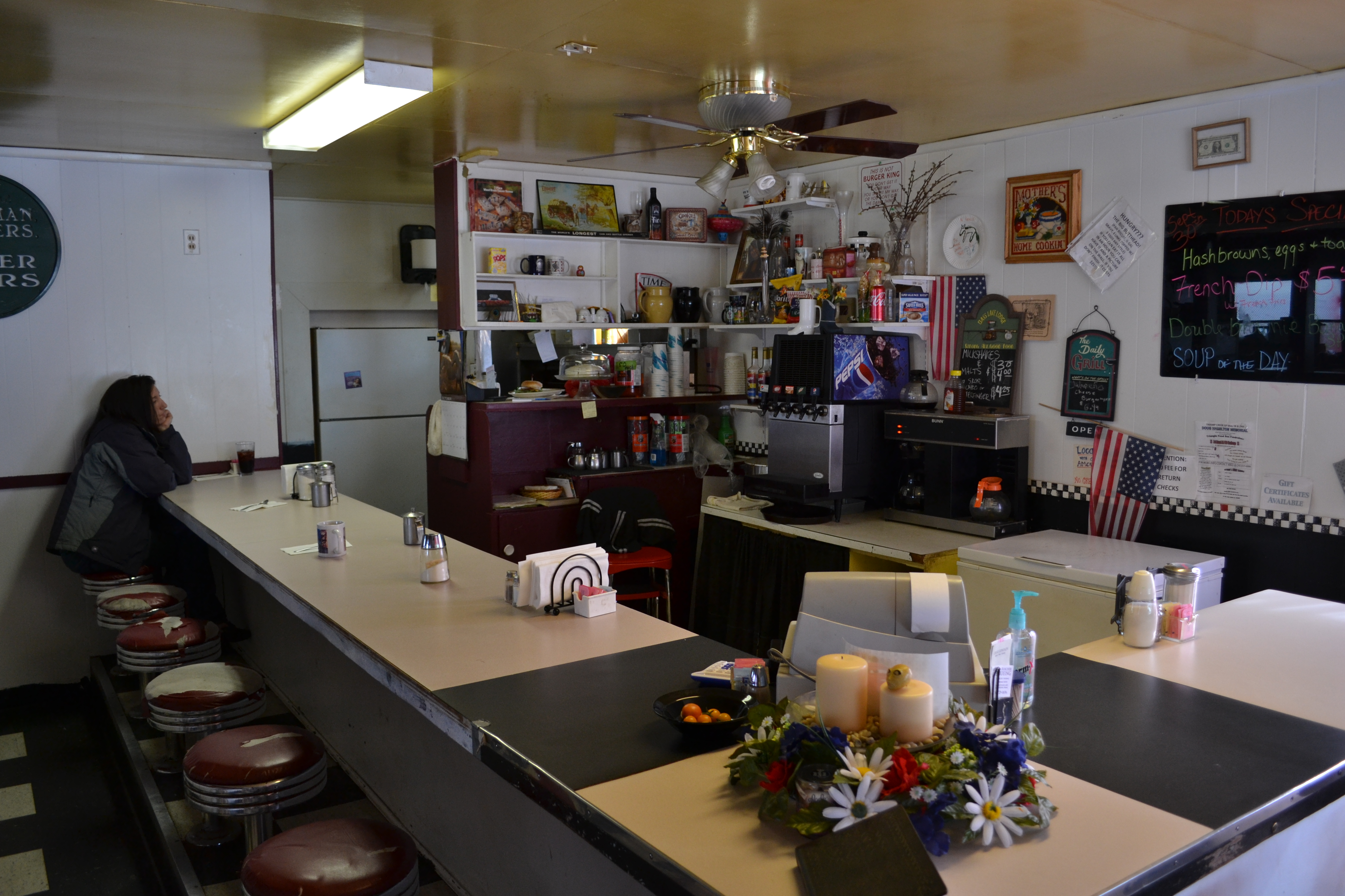 Crystal's Country Cafe (Low Pass, Oregon)